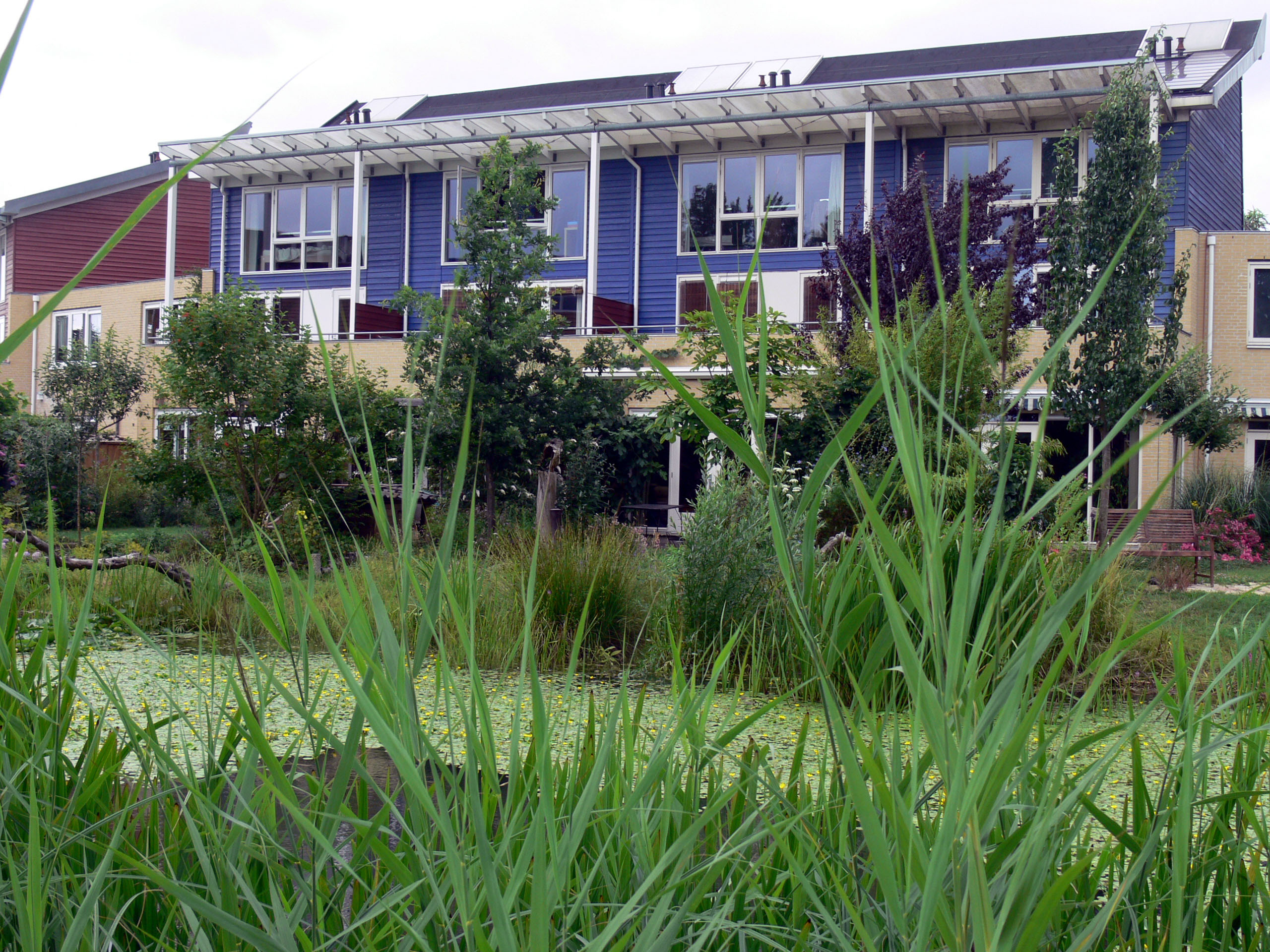 Houses in E.V.A. Lanxmeer district (a "green distric" named Lanxmeer, built at Culemborg, The Netherlands), wich is a recent (1994-2009) district (semi-public eco-building) of approximately 250 ecological houses, several offices and a urban farm. The project is based on "Sustainable Implant" with a spatial combinaison of natural systems, technical approach of integrated waste (wastewater) / energy system and écological and social purposes, for an urban neighborhood. The district is in an ecologically sensitive area (former drinking waterextraction and retention area). The conception of this district is based on permaculture, and organic design, a small biogas installation (able to treate black water and organic waste and garden & park waste), a combined Heat Power. Some houses are in closed greenhouse. A semi-public building (the ‘EVA Centre) should yet be made, based on the Living Machine concept.